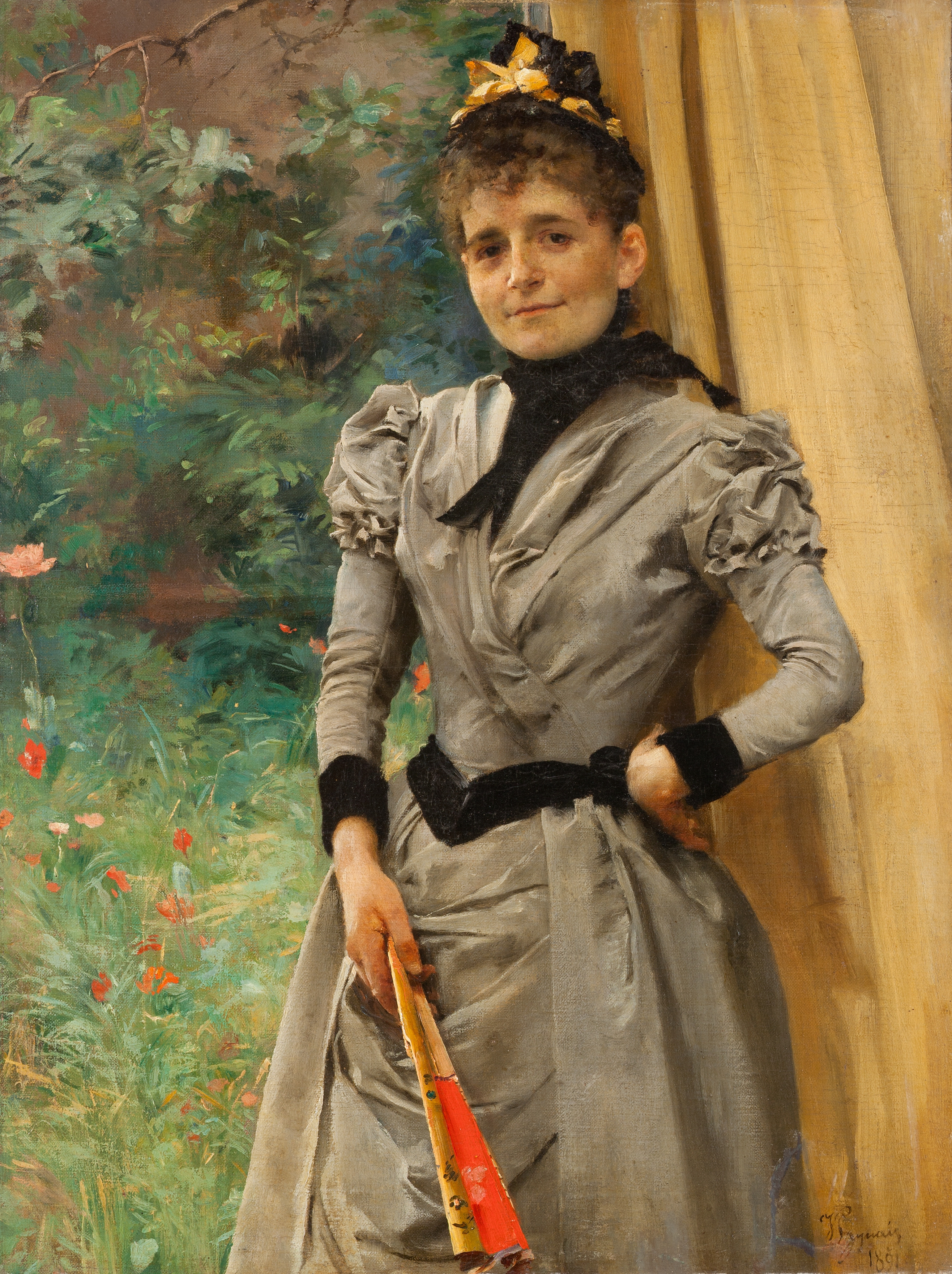 Portrait of a Lady with a Fan.